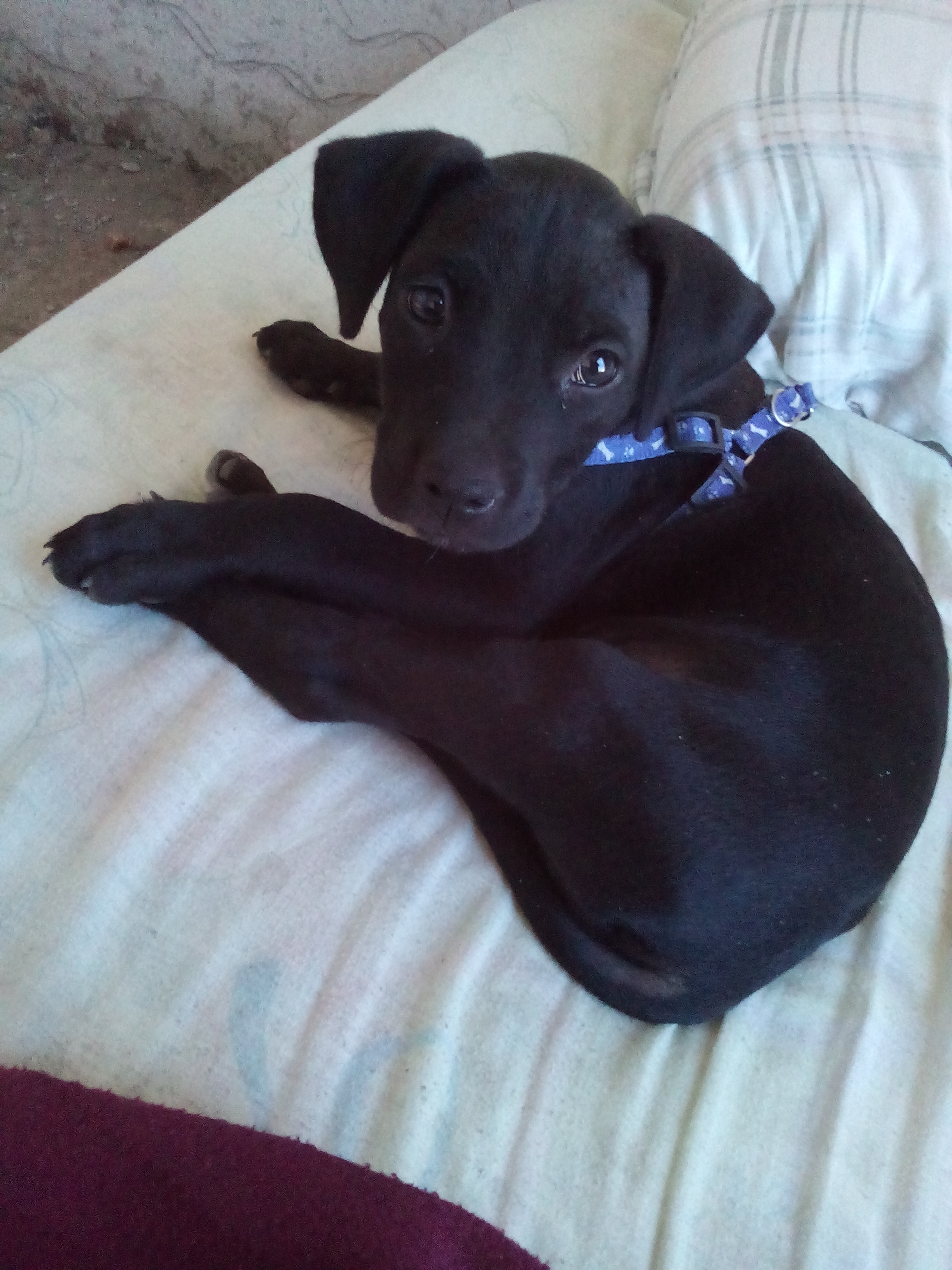 Dog puppy lying on a bed.